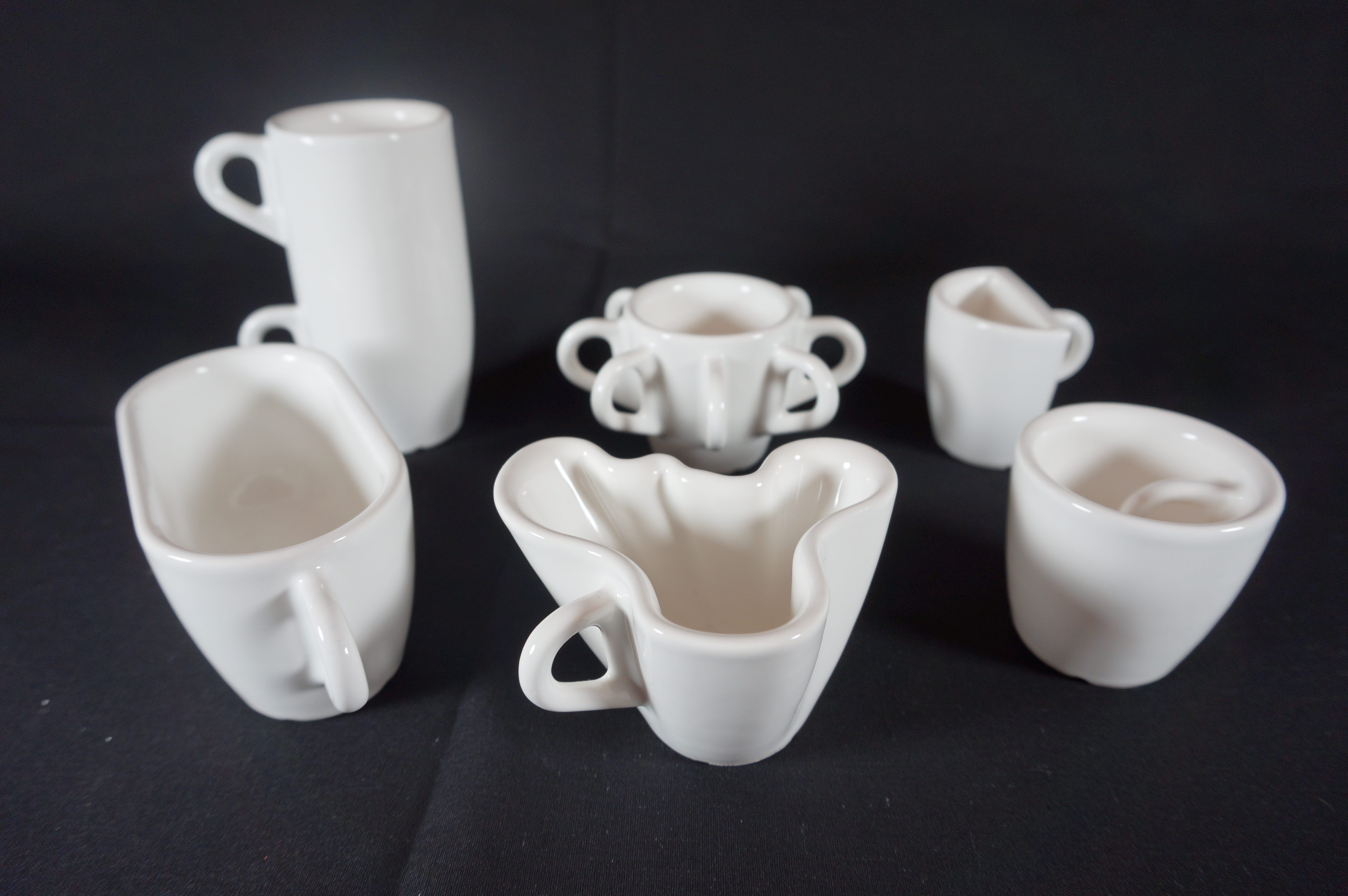 30 Tasses 30 jours, 3D printed enamelled pottery, Bernat Cuni,2011